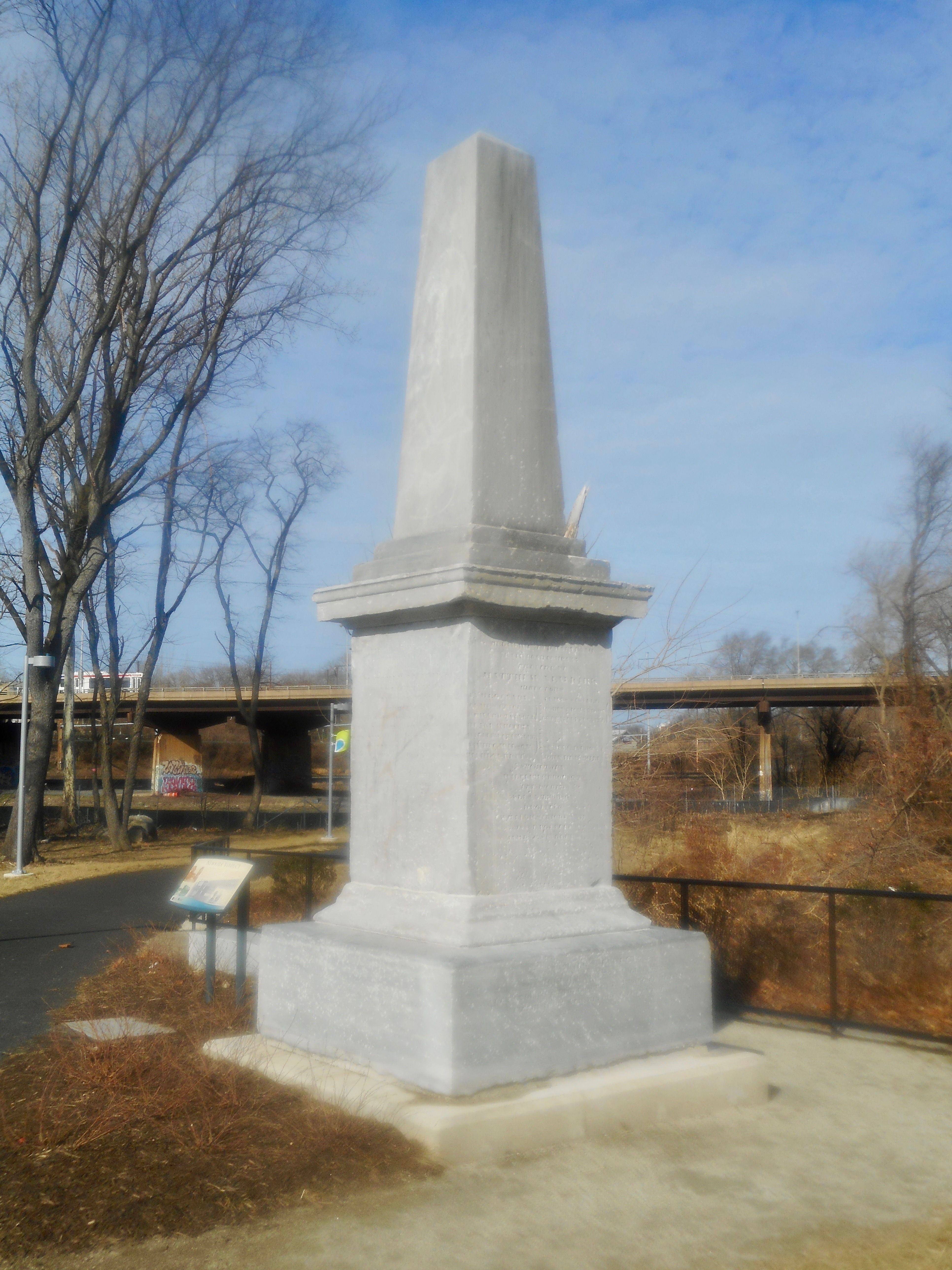 Newkirk Viaduct Monument built 1839 on the west bank of the Schuylkill River across from the Grey's Ferry neighborhood in Philadelphia. Relocated in 2013. This is the new location.